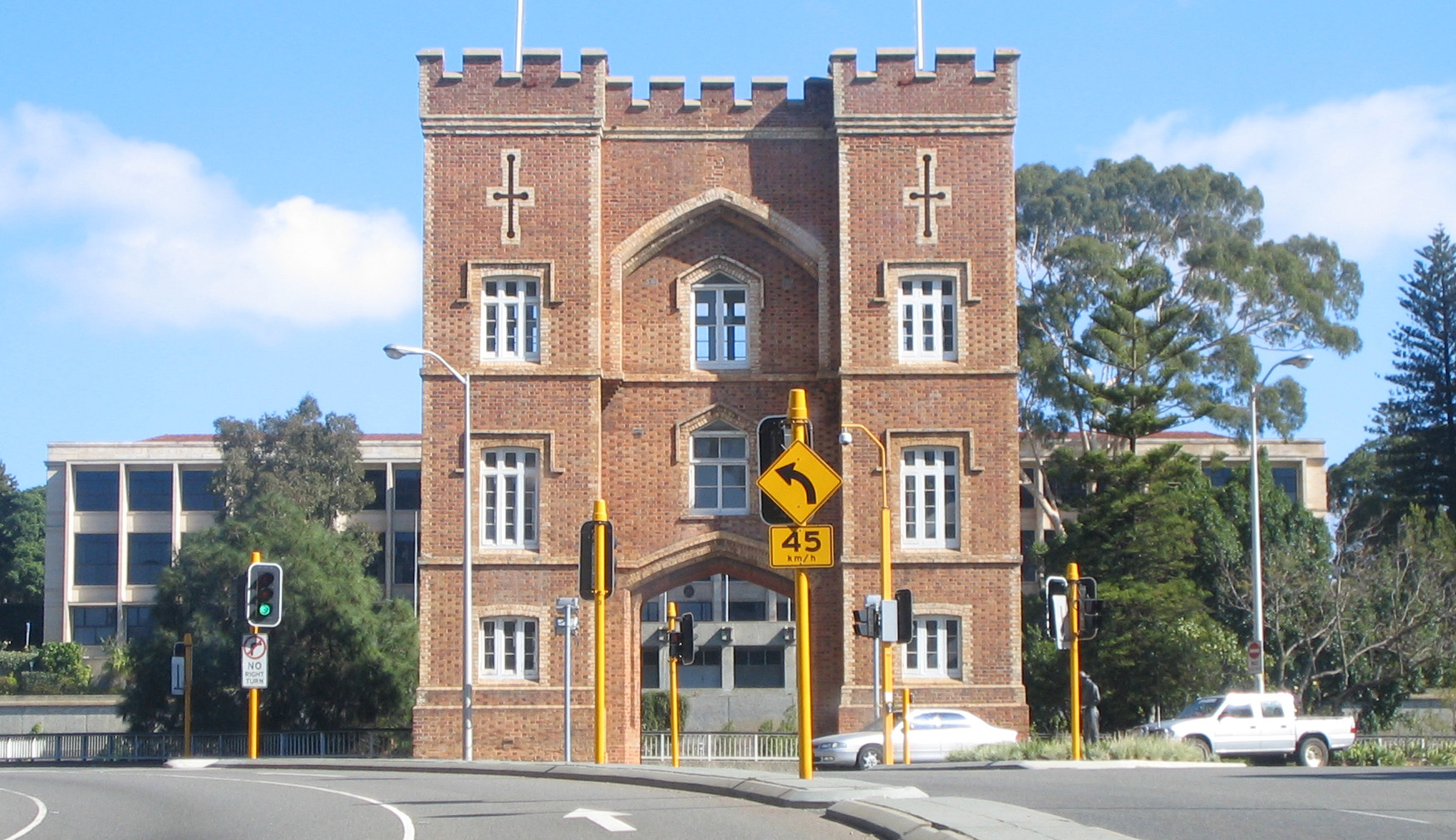 The Barracks Arch, St Georges Terrace, Perth, Western Australia, with the Western Australian Parliament in the background.